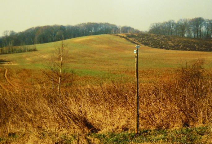 Cats Mountain - Lower Silesia. Ciemna Gora Peek.